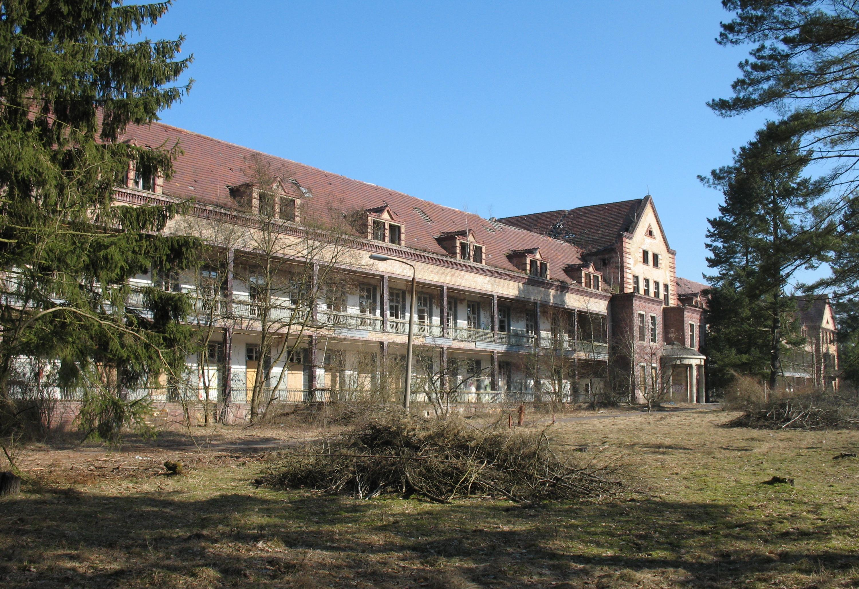 Former sanatorium for consumptives in Beelitz-Heilstätten in Brandenburg, Germany